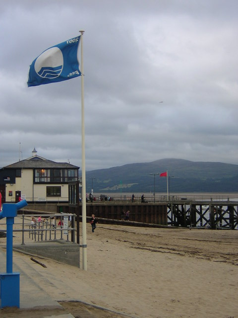 Aberdyfi blue flag beach